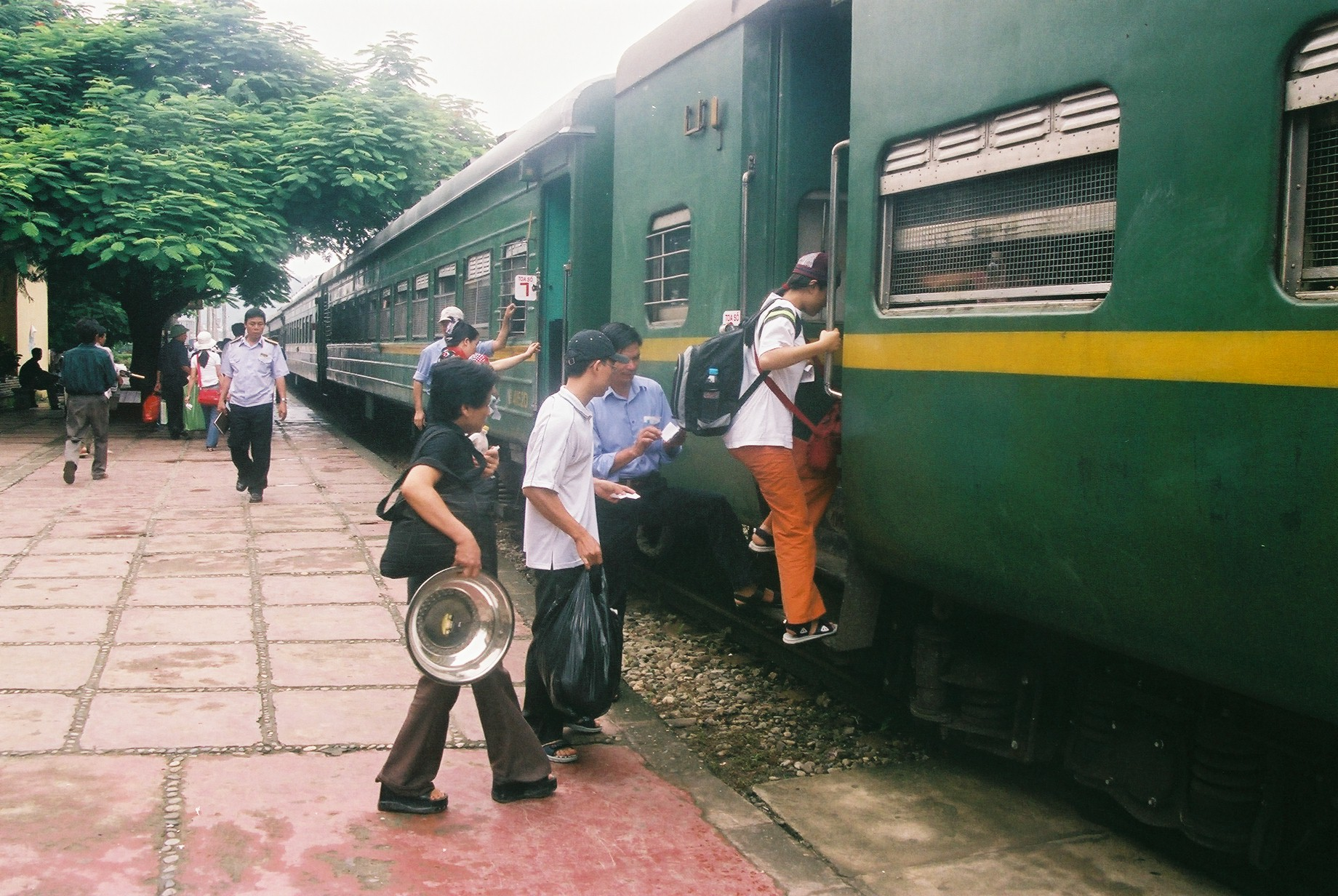 Passengers boarding a train in Vietnam.